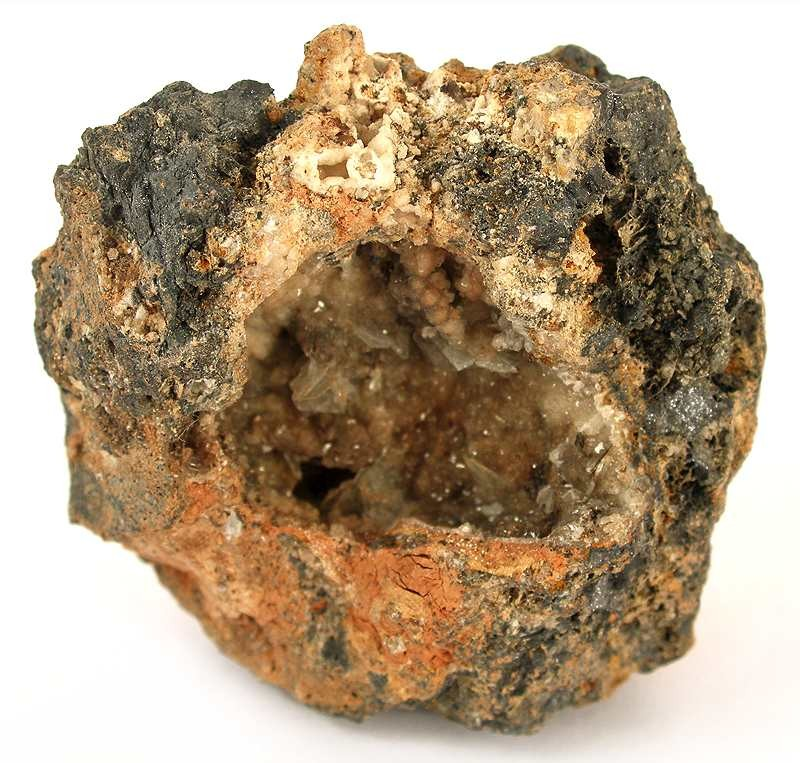 Leadhillite Locality: Leadhills, South Lanarkshire, Strathclyde (Lanarkshire), Scotland, UK (Locality at ) Size: 5.3 x 5.1 x 4.4 cm. Sharp, gemmy, razor-thin crystals of transparent leadhillite, grown inside a protective vug of heavy galena which seems to be partially altered to cerussite. This is a whole nodule or vug, with the inside pocket intact.